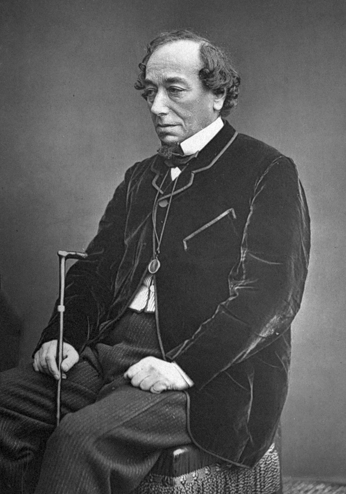 Portrait photograph of Benjamin Disraeli